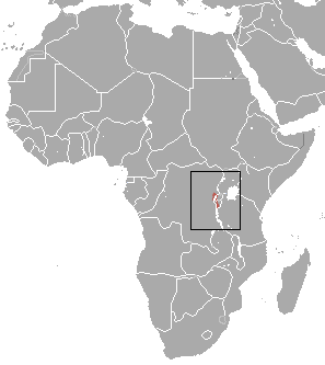 Babault's Mouse Shrew (Myosorex babaulti) range